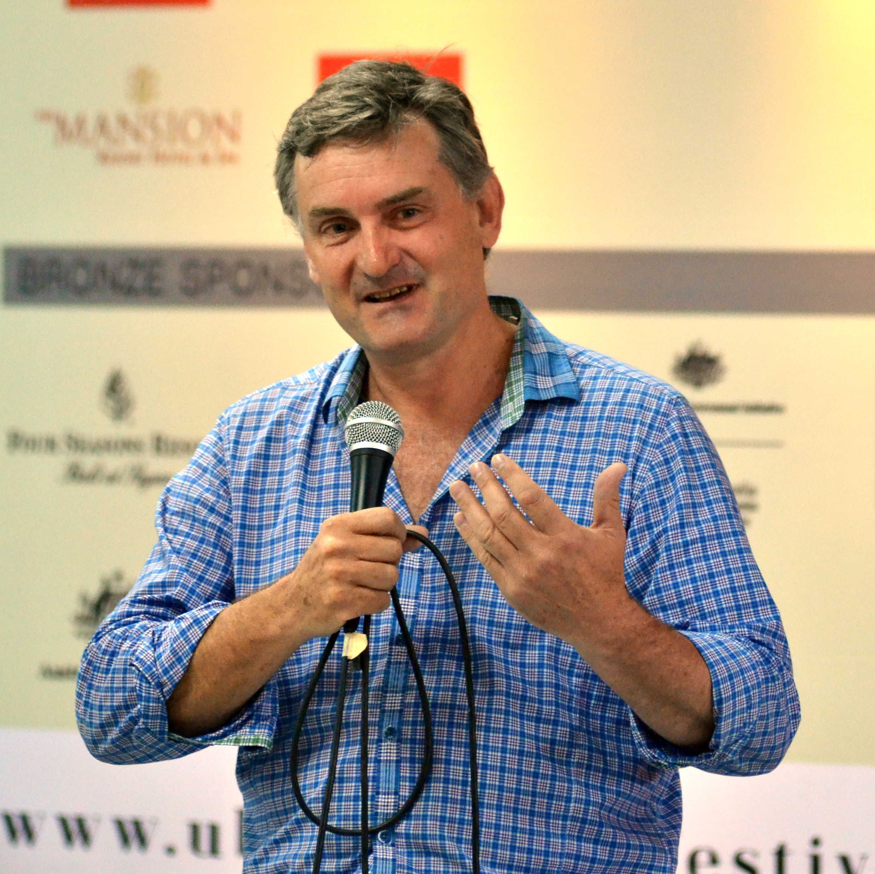 Ubud Writers & Readers Festival 2012. Image credit Anggara Mahendra.